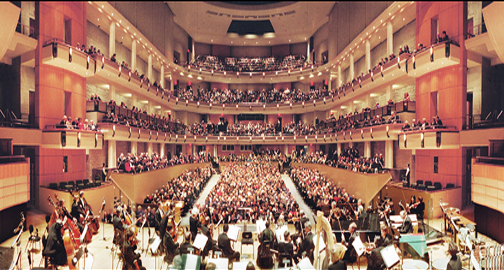 A publicity photo of the Edmonton Symphony Orchestra on stage at the Winspear Centre prior to performance.